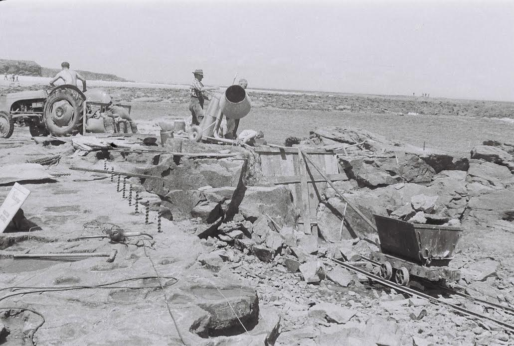 Miners building the rockpool in the 1960's at Cape Paterson, Victoria, Australia. Taken by the Birt local family.